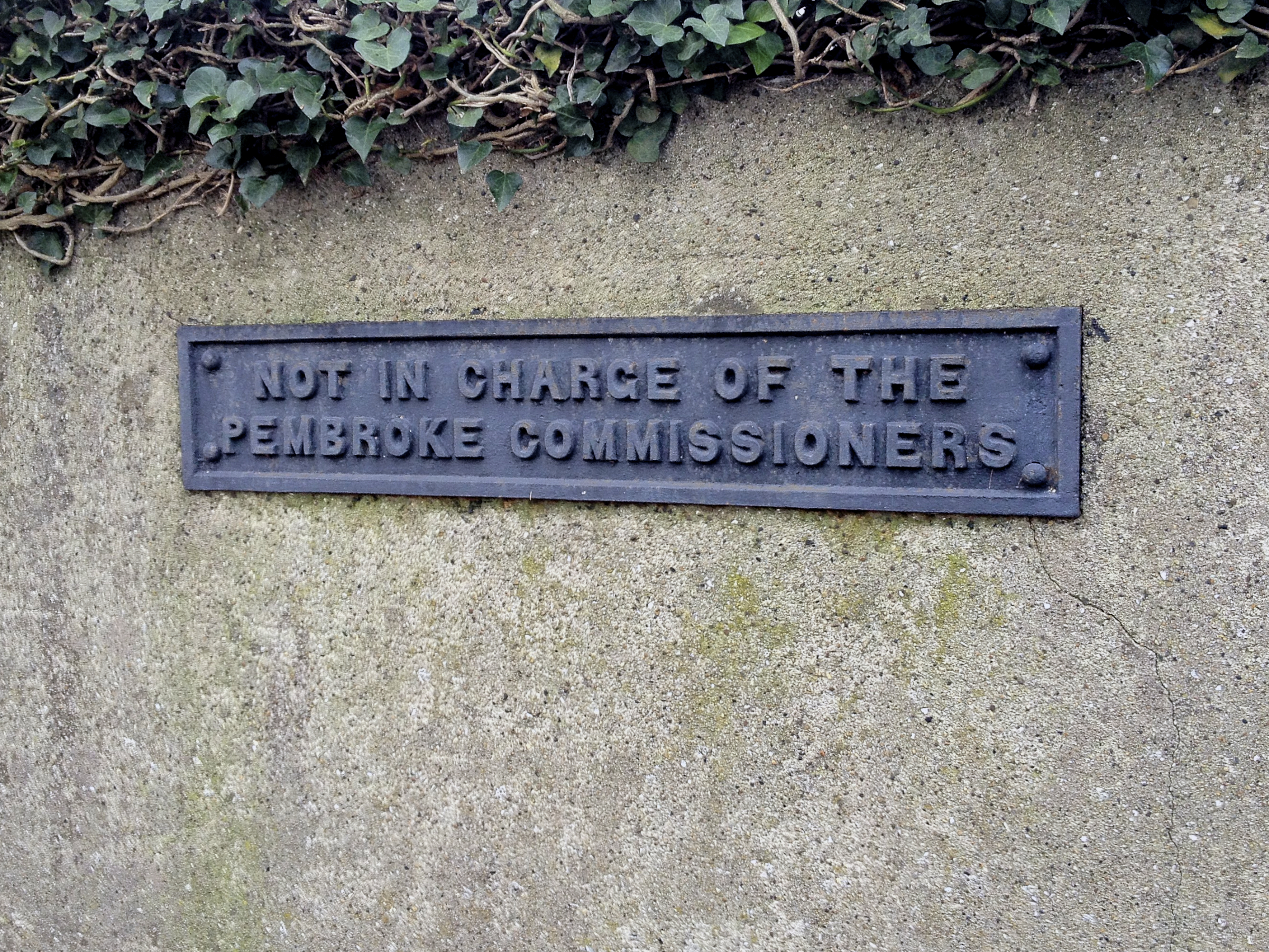 A plaque, from the days of The Pembroke Commissioners (1863-1899), stating that the lane-way on which it is placed was not in (the) charge of the commissioners.